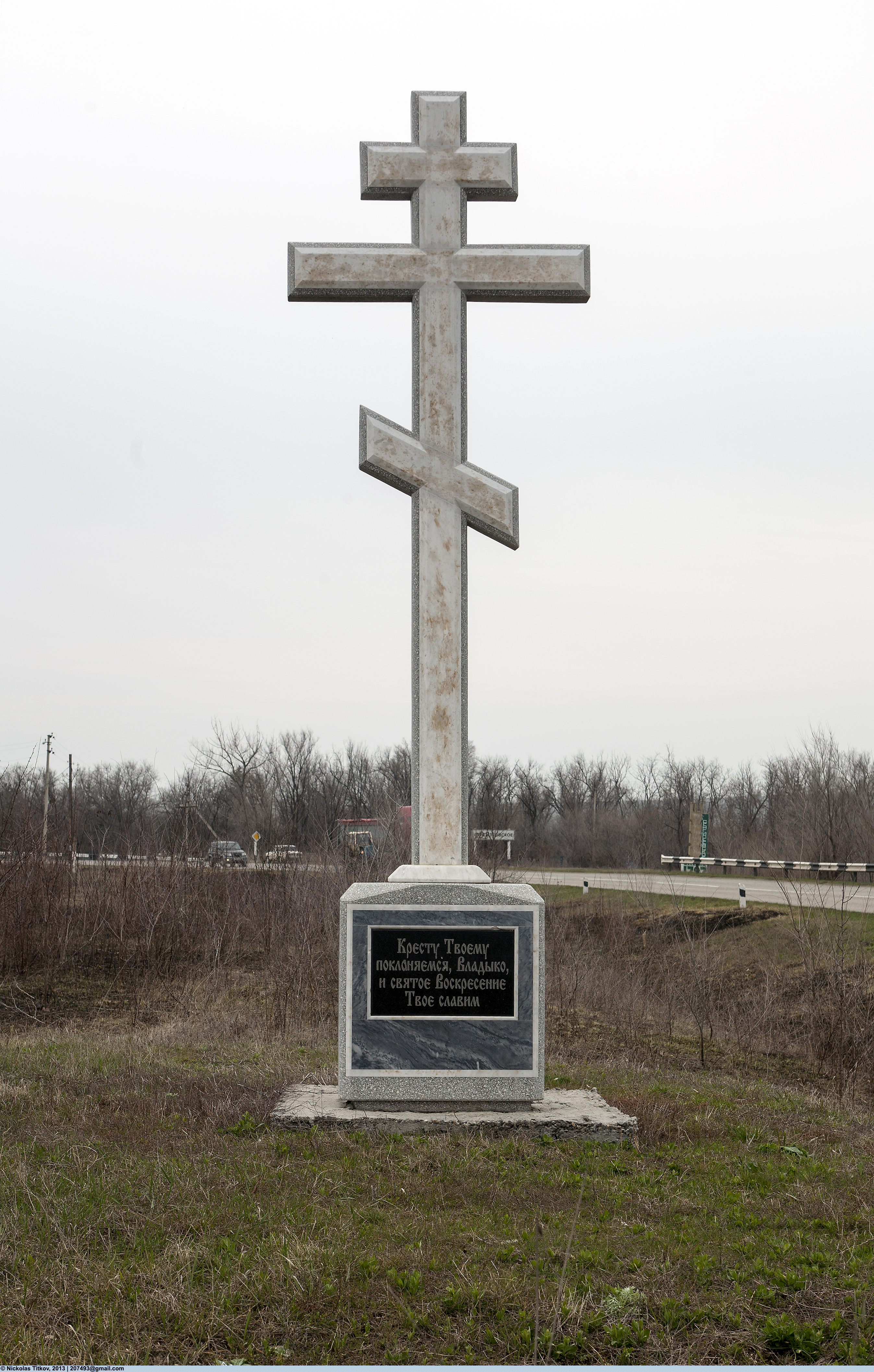 Памятный каменный крест на выезде из села Сенгилеевское